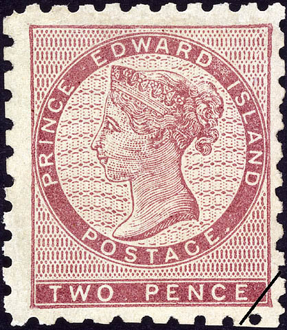 First stamp of the Prince Edward Island British colony